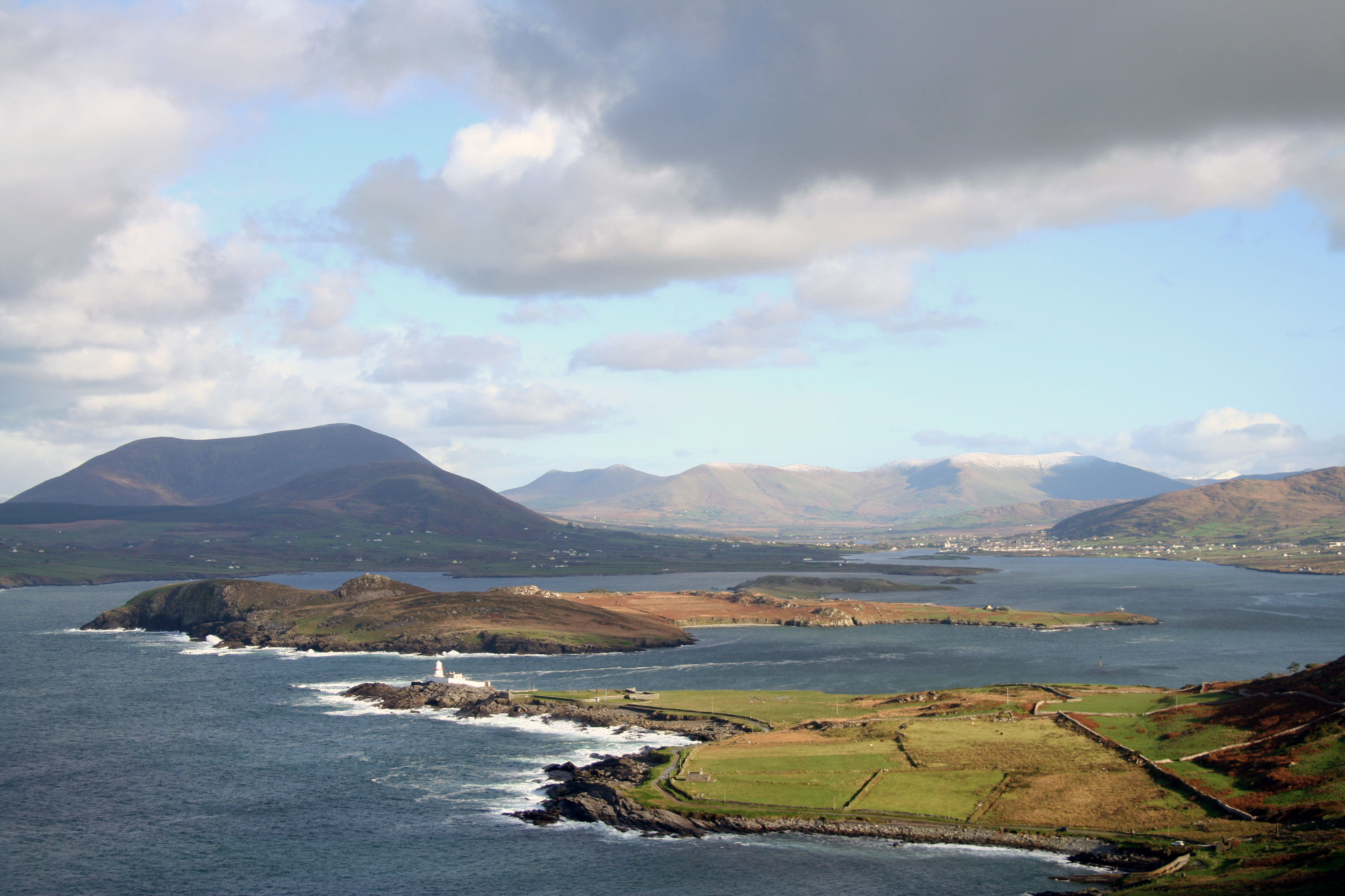 Taken from the Slate Quarry on Valentia Island, Co. Kerry, Ireland on a cold and windy day. The lighthouse is Cromwell Point Lighthouse, located on Valentia Island. Snow is visible on the Macgilicuddy reeks in the distance.